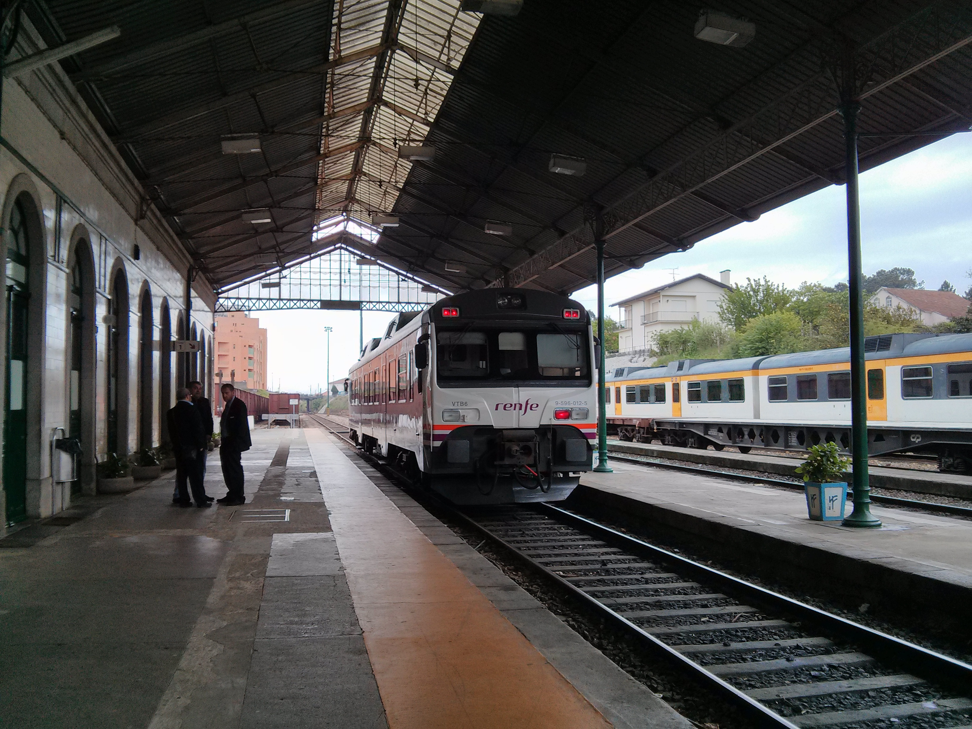 Renfe train (type 596) at Valença train station, Valença, Portugal